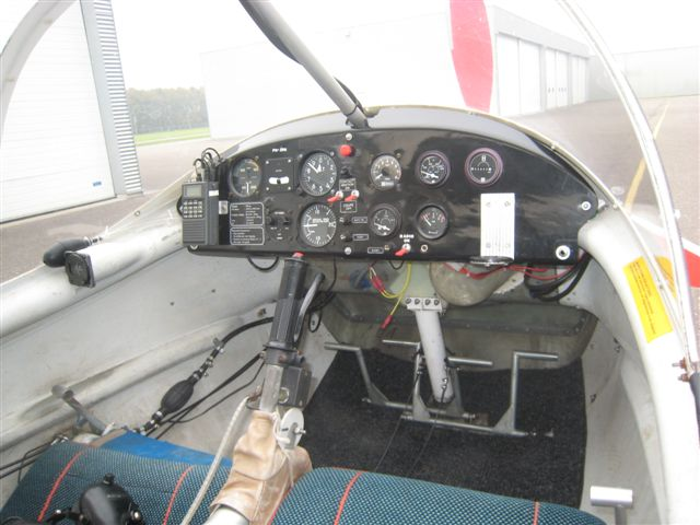 Cockpit of an Aviasud Mistral ultralight aircraft.